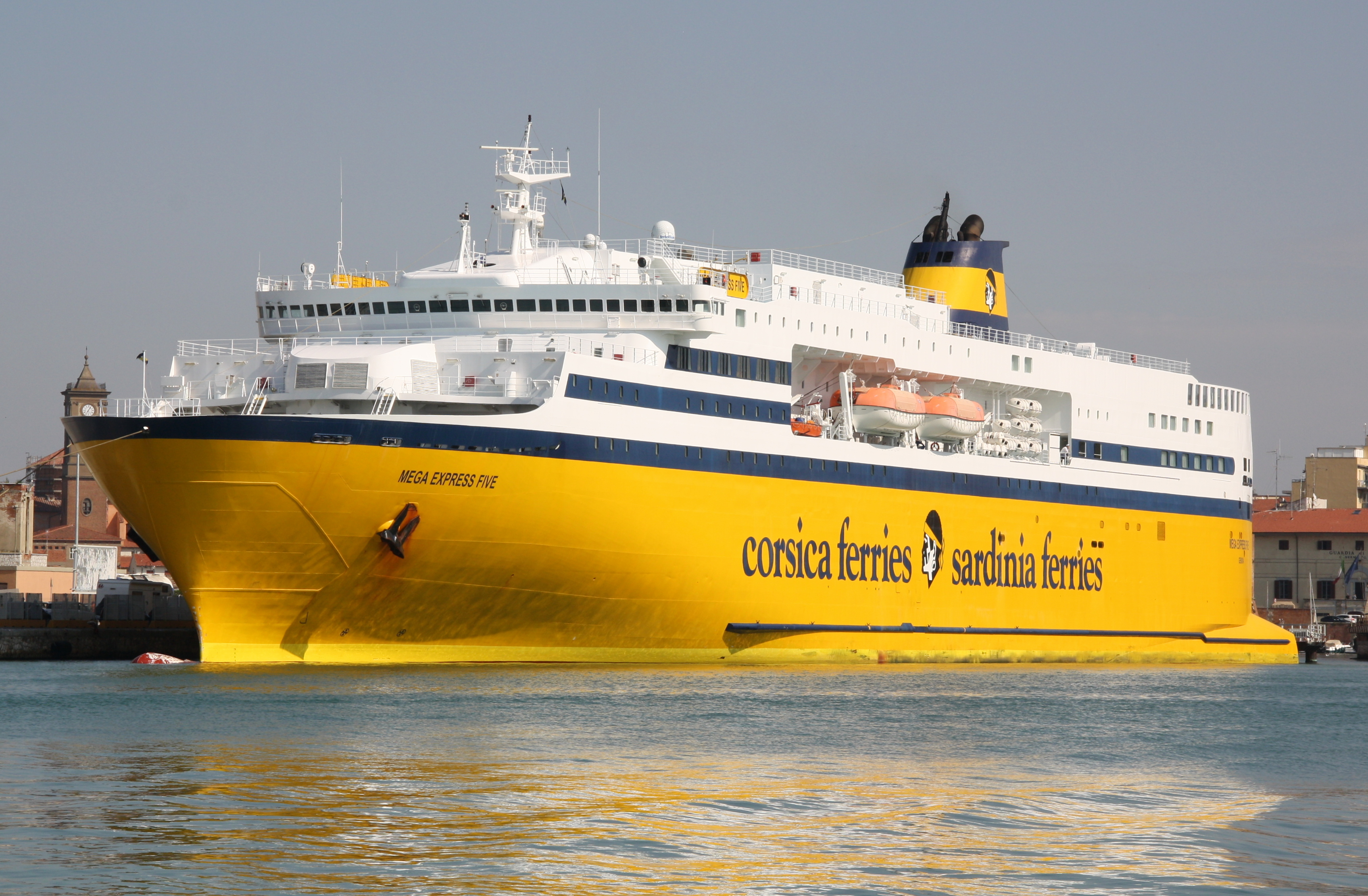 Shipowner: Forship Operator: Corsica Ferries Sardinia Ferries IMO: 9035101 MMSI: 247183200 Call sign: ICBD Type: Roll-on/roll-off Builder: Mitshubishi Heavy Industries, Shimonoseki, Japan Launch date: January, 29, 1993 Port of registry: Genova Gross tonnage: 27,711 t DWT: 5,802 t Length overall: 170 m Breadth: 25.03 m Speed: 26 knots Main engine: 2 Pielstick-Nippon Kokan 14cyl diesel engines Engine power: 30,580 kW Passengers decks: 4 Passengers: 1,800 Cars: 600